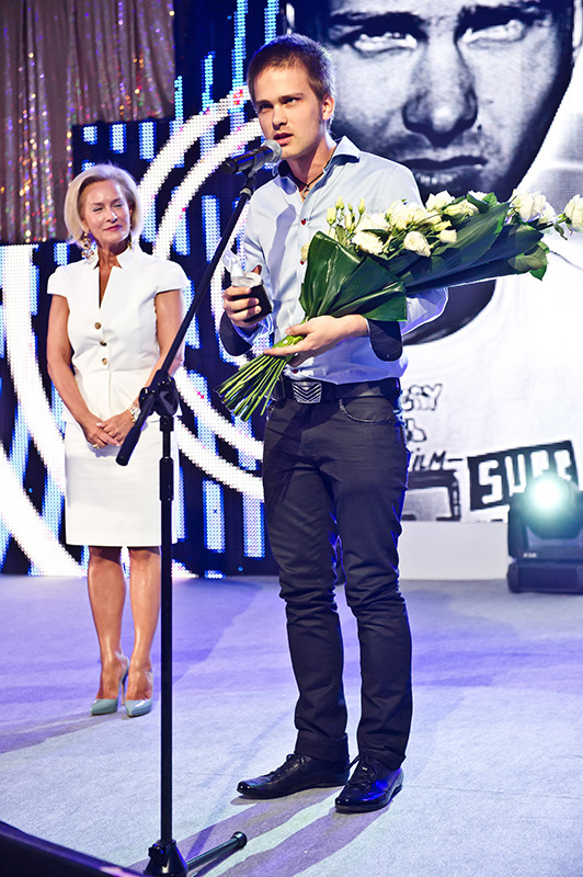 Krysztalowe-Zwierciadla